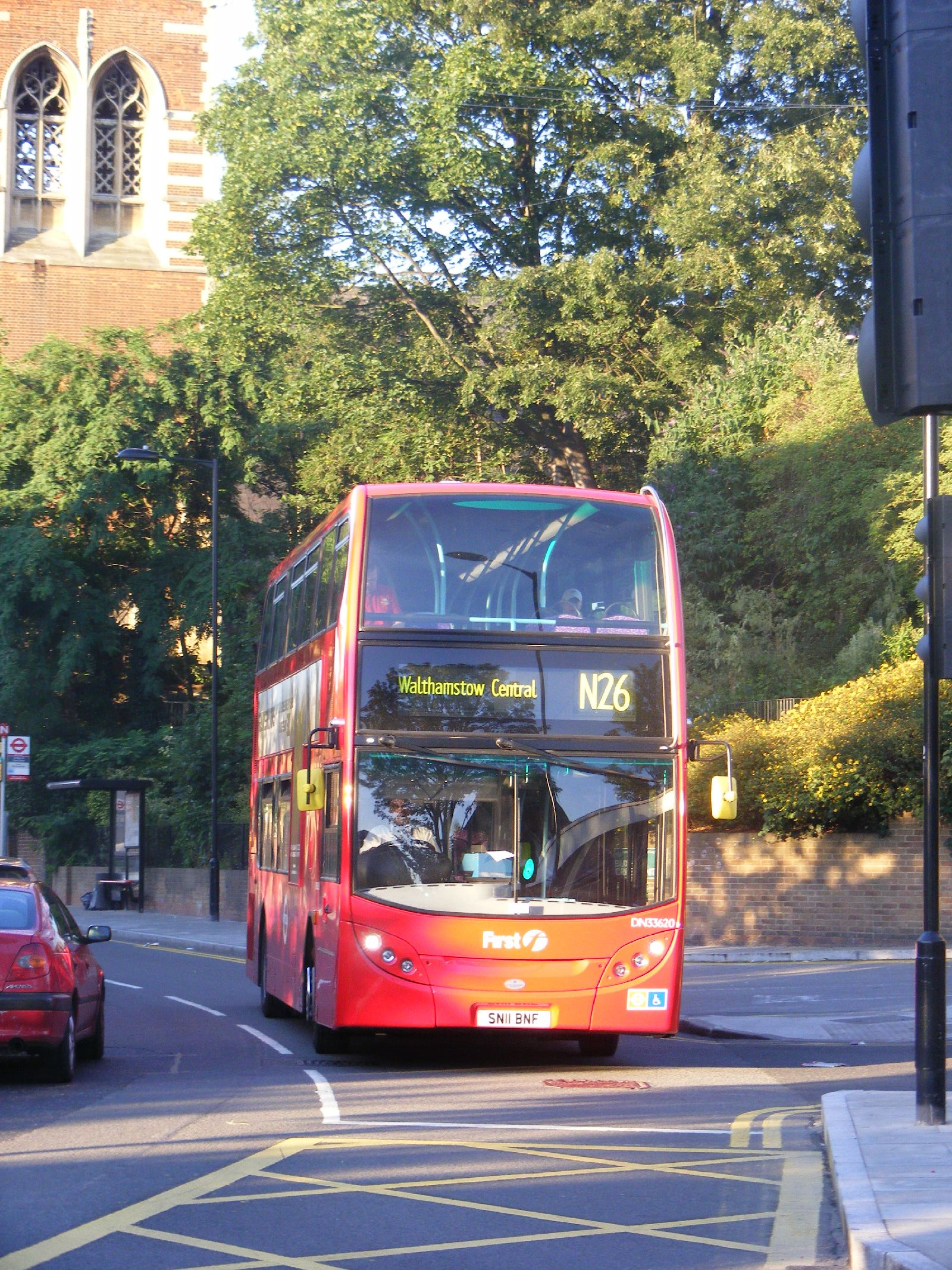 Night bus service N26 at Hackney Wick, passing the terminus of the 30 route which was taken over by First from Stagecoach at the same date, 25 June 2011.